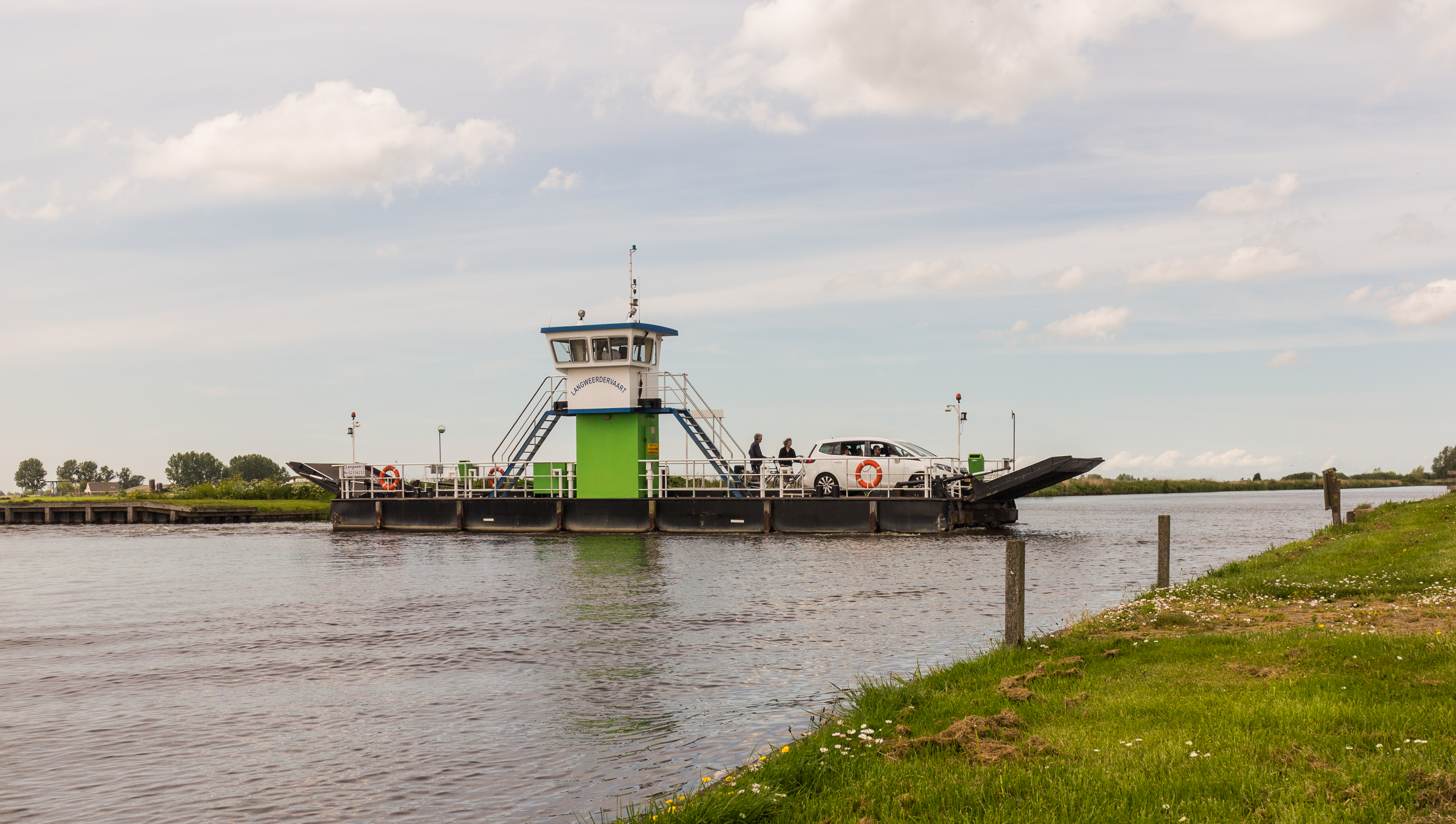 ferry bridge in the Langweerder Vaart.